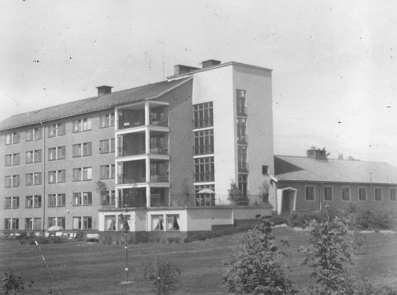 The nursing home Västra sjukhemmet, Örebro, Sweden